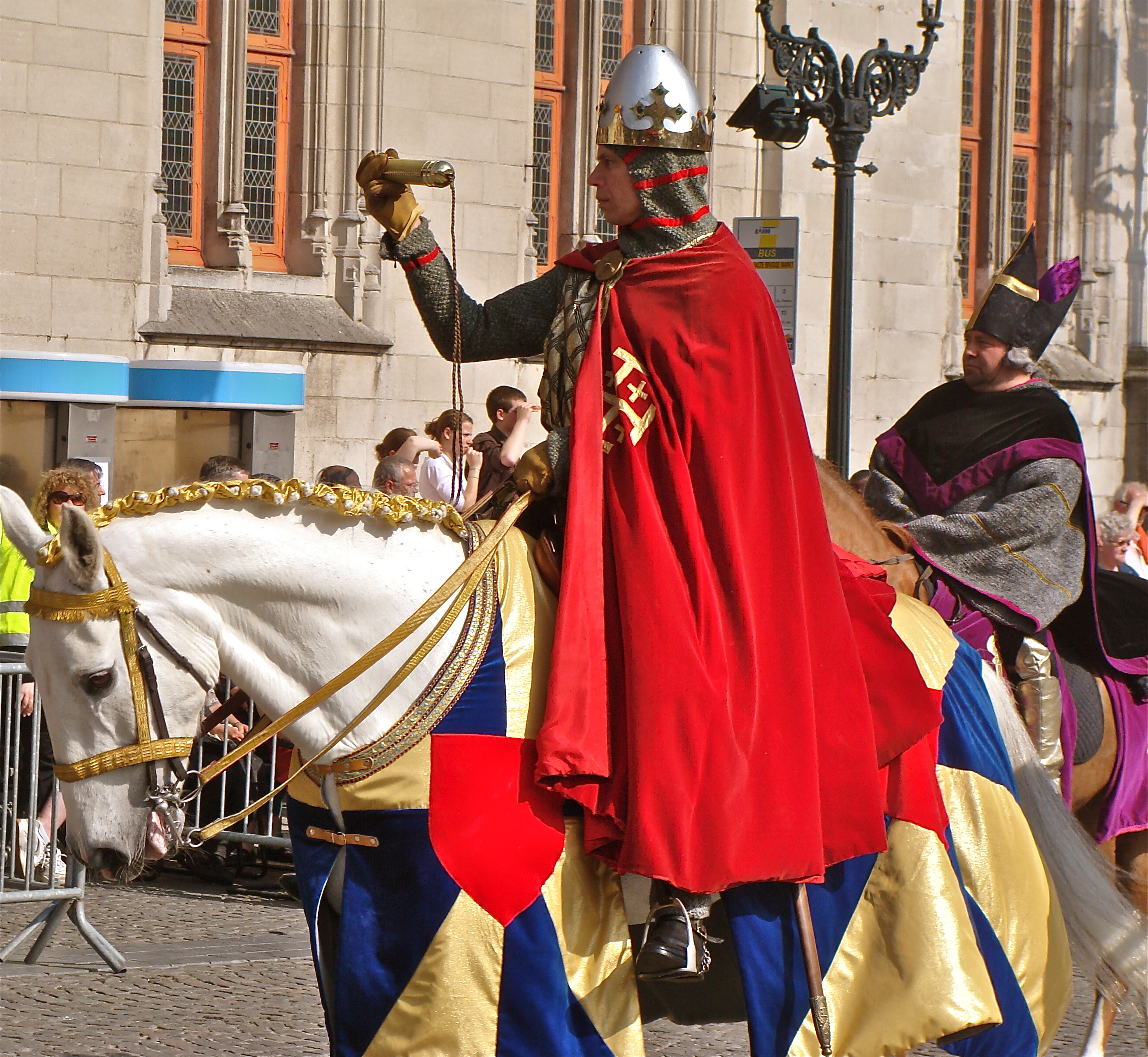 Thierry d'Alsace , count of Flanders, back from crusades, showing the holy Blood phial to the people. Backside, Abbey Leonius of St Omer